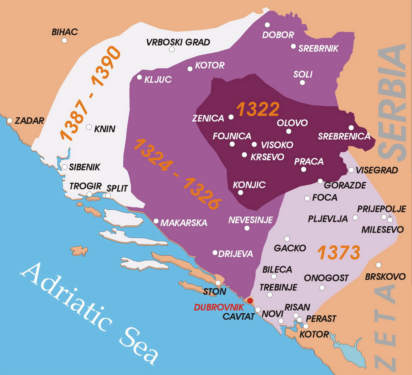 Kingdom of Bosnia in the XIV century.